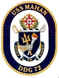 gif format for mahan crest